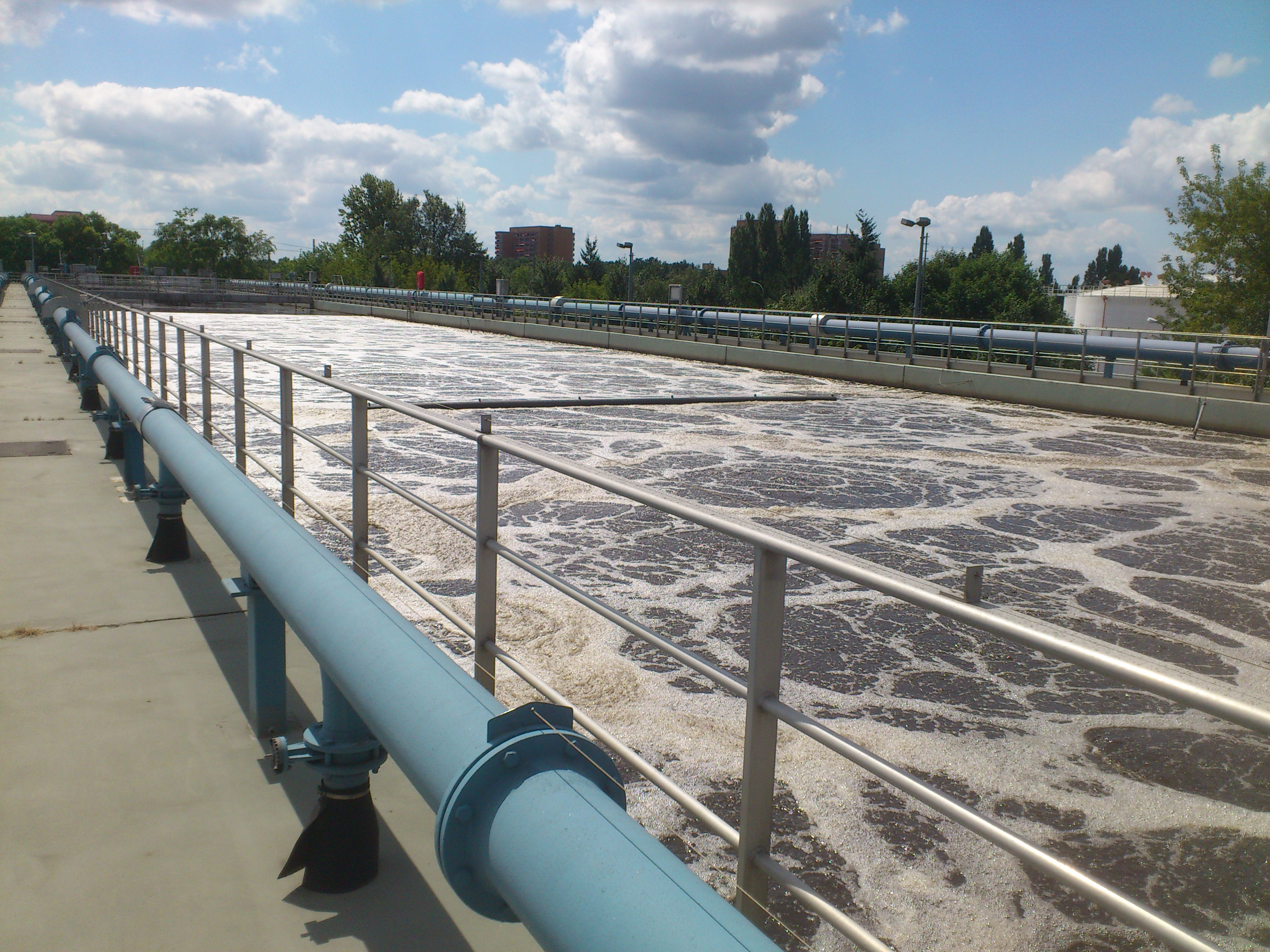 A conventional activated sludge line at wastewater treatment plant Berlin Ruhleben